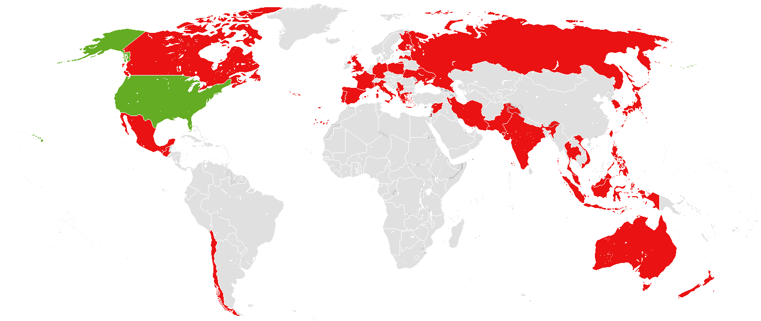 Broadcaster country of the japanese anime Pretty Cure. Red: TV broadcast (dubbed or subbed). Green: Web broadcast.